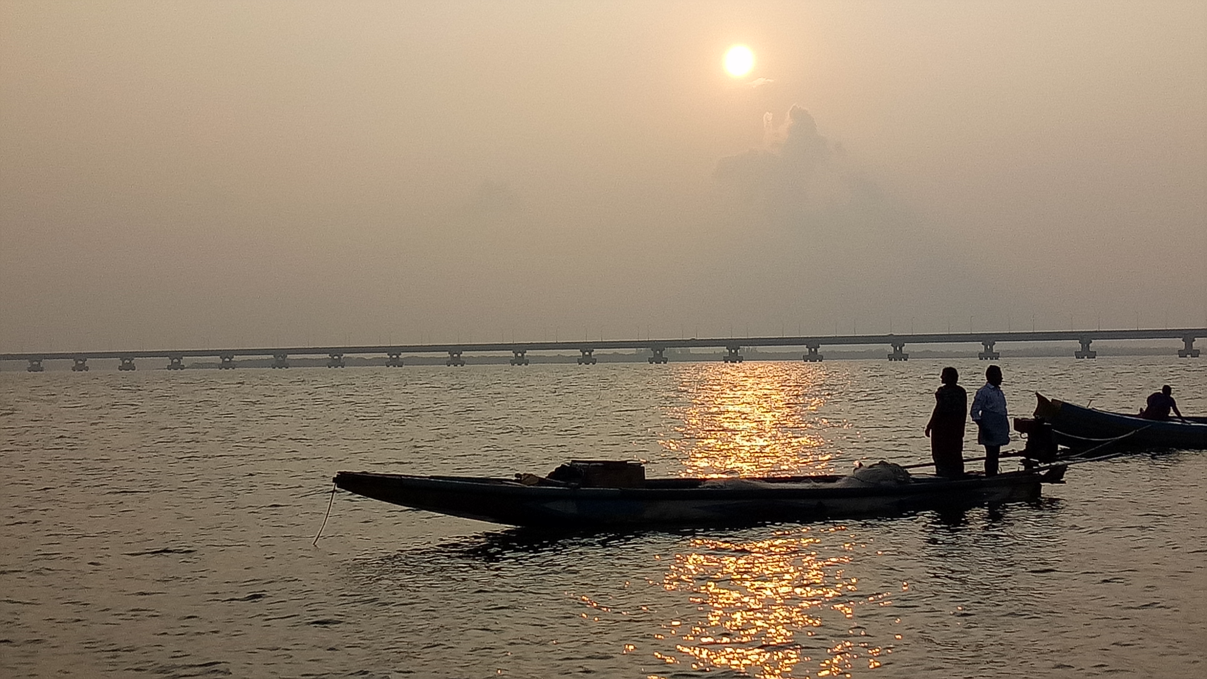 Image taken at the time of visiting Yaanam Beach.